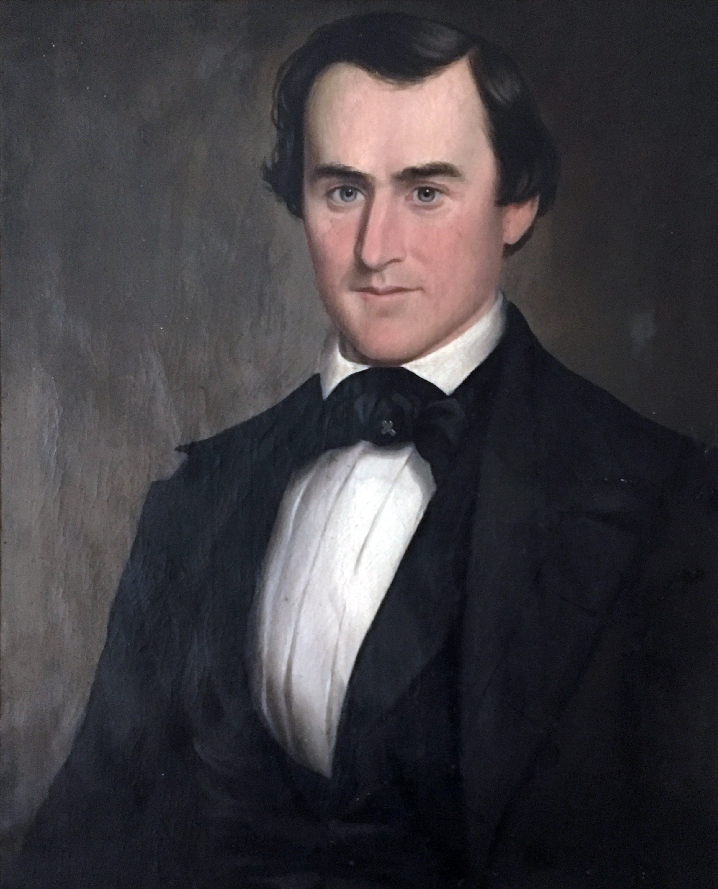 This painting is in the possession of a descendant (3rd great granddaughter).